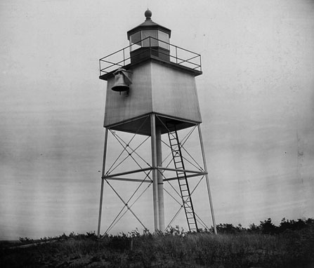 Public Domain statement here; The Chequamegon Point lighthouse is a lighthouse located on Long Island, one of the Apostle Islands, in Lake Superior in Ashland County, Wisconsin, near the city of Bayfield.